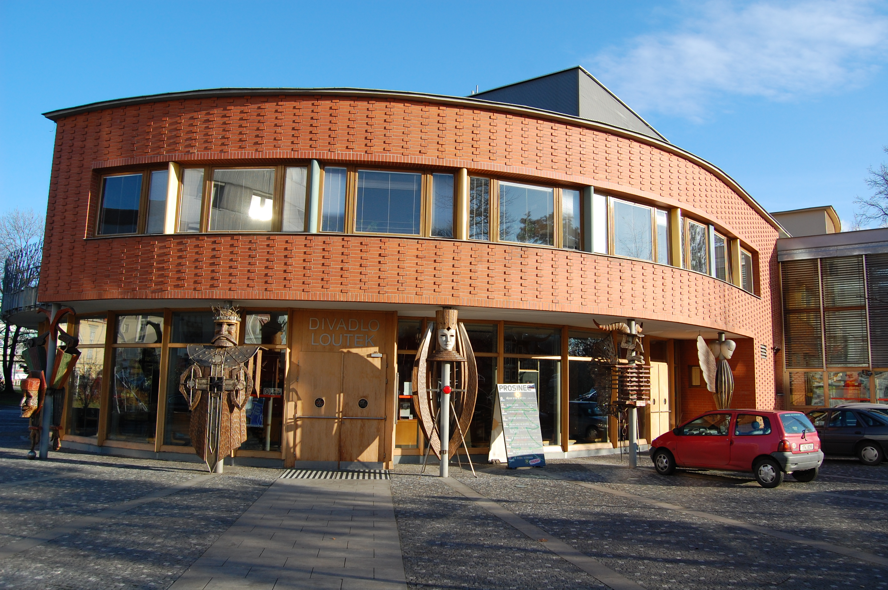 Puppet Theatre of Ostrava, Czech republic.